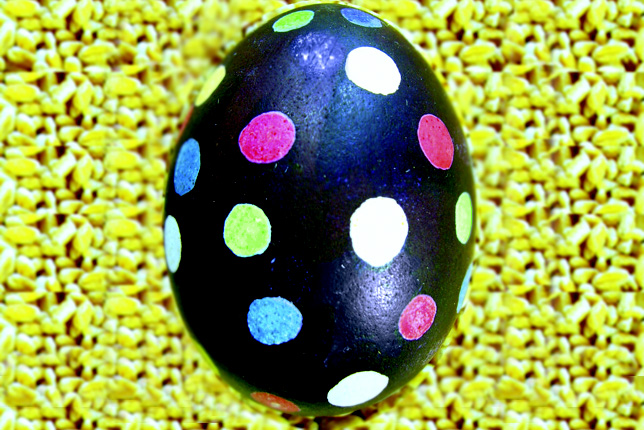 Krapanka, Ukrainian Easter egg